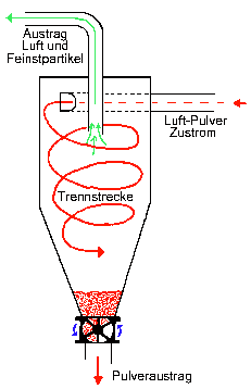 operating principle of a cyclone separator